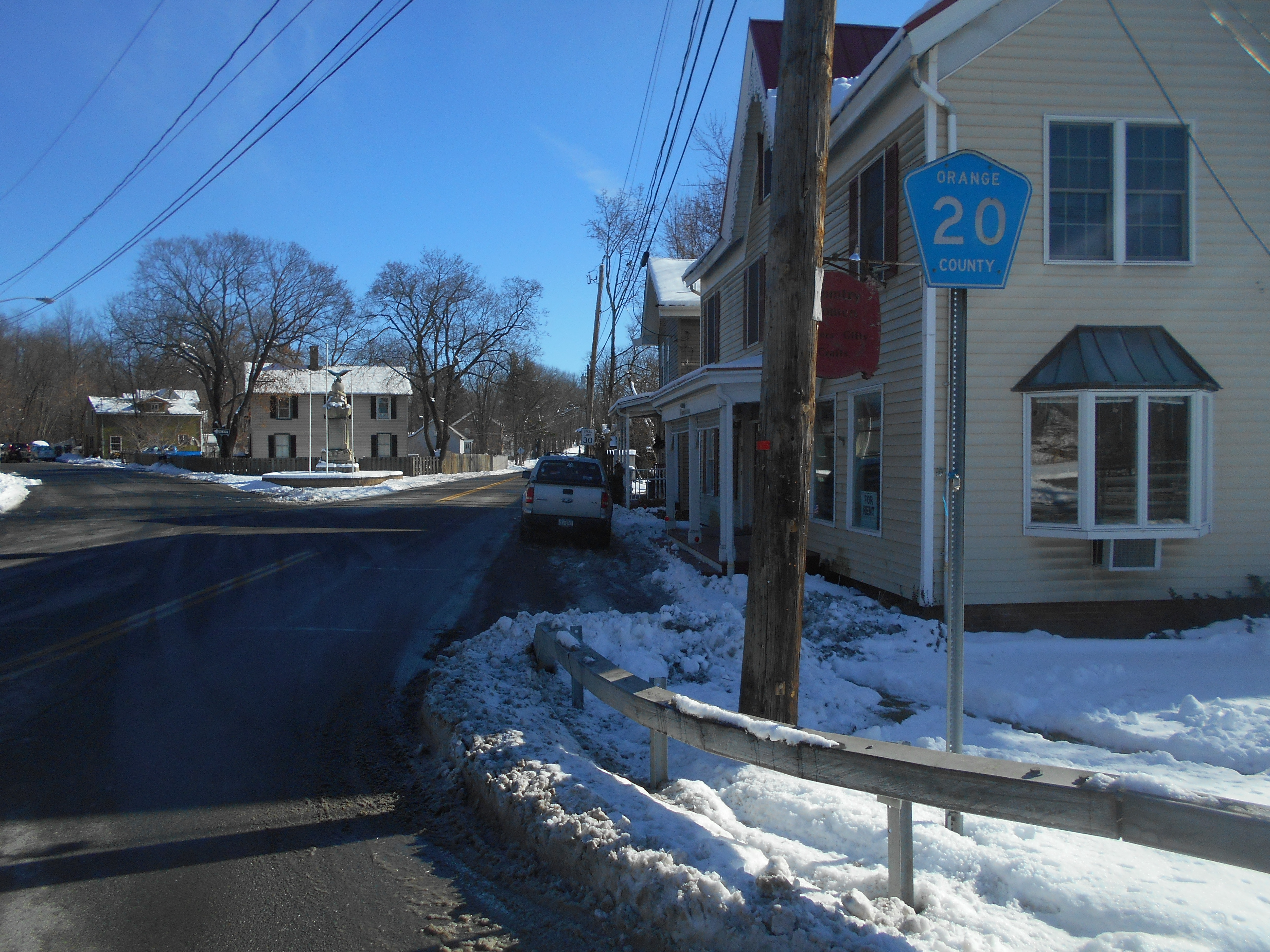 County Route 20 signage in Salisbury Mills, New York.